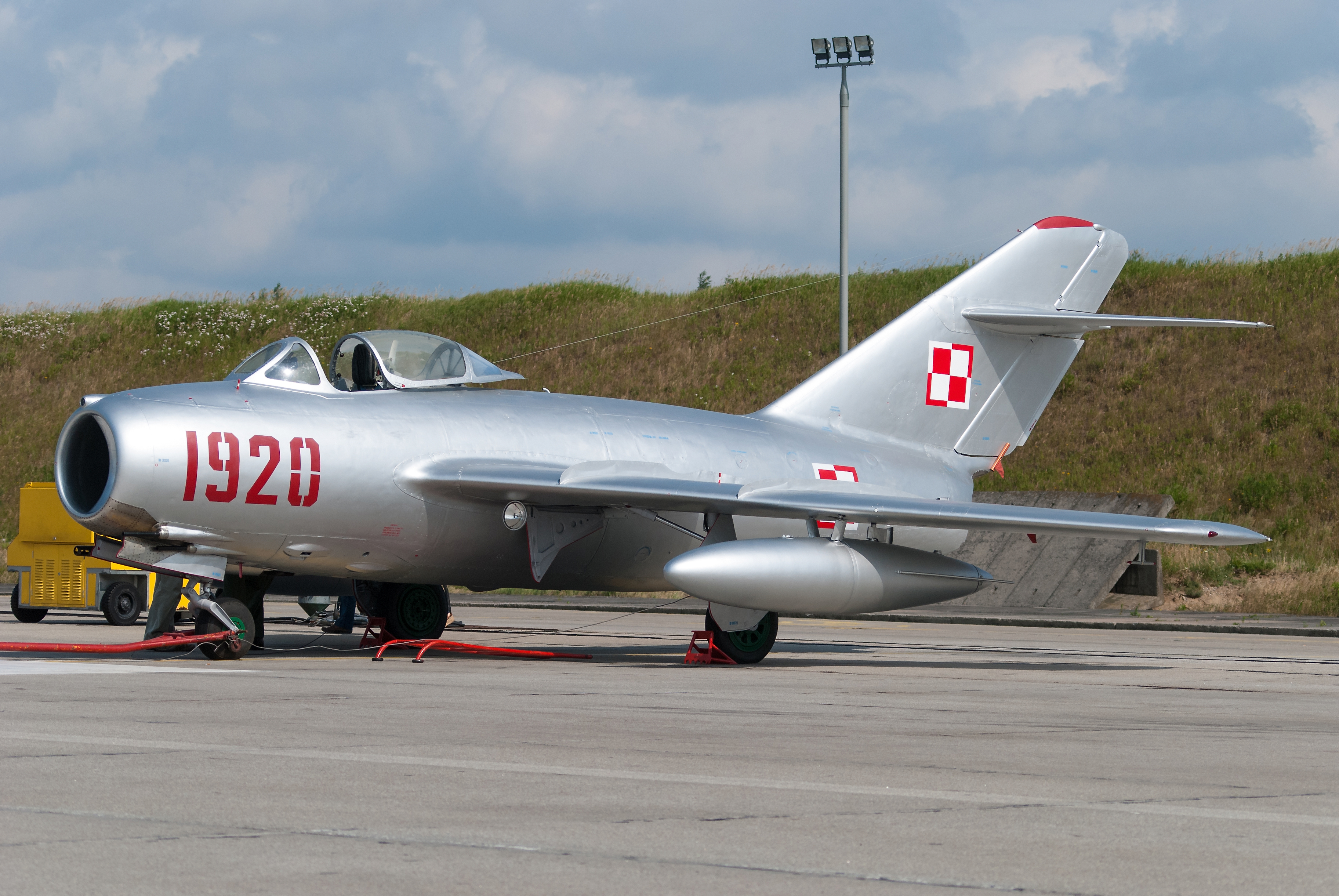 Mikoyan-Gurevich MiG-15 at Świdwin Air Picnic 2013